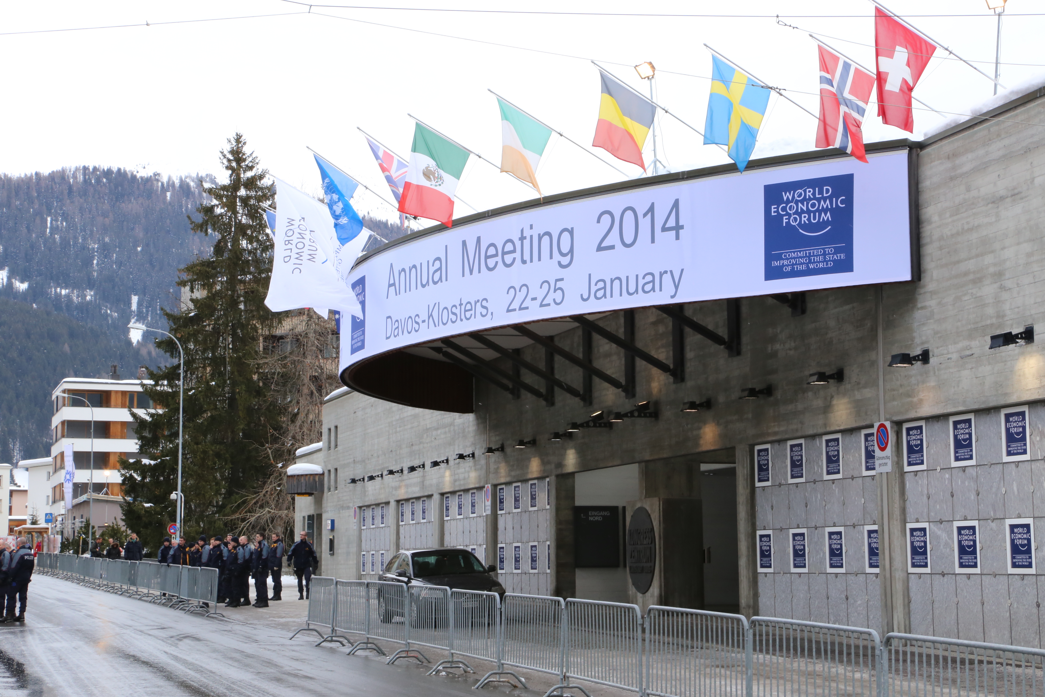 Entrance to the World Economic Forum at Davos, 2014